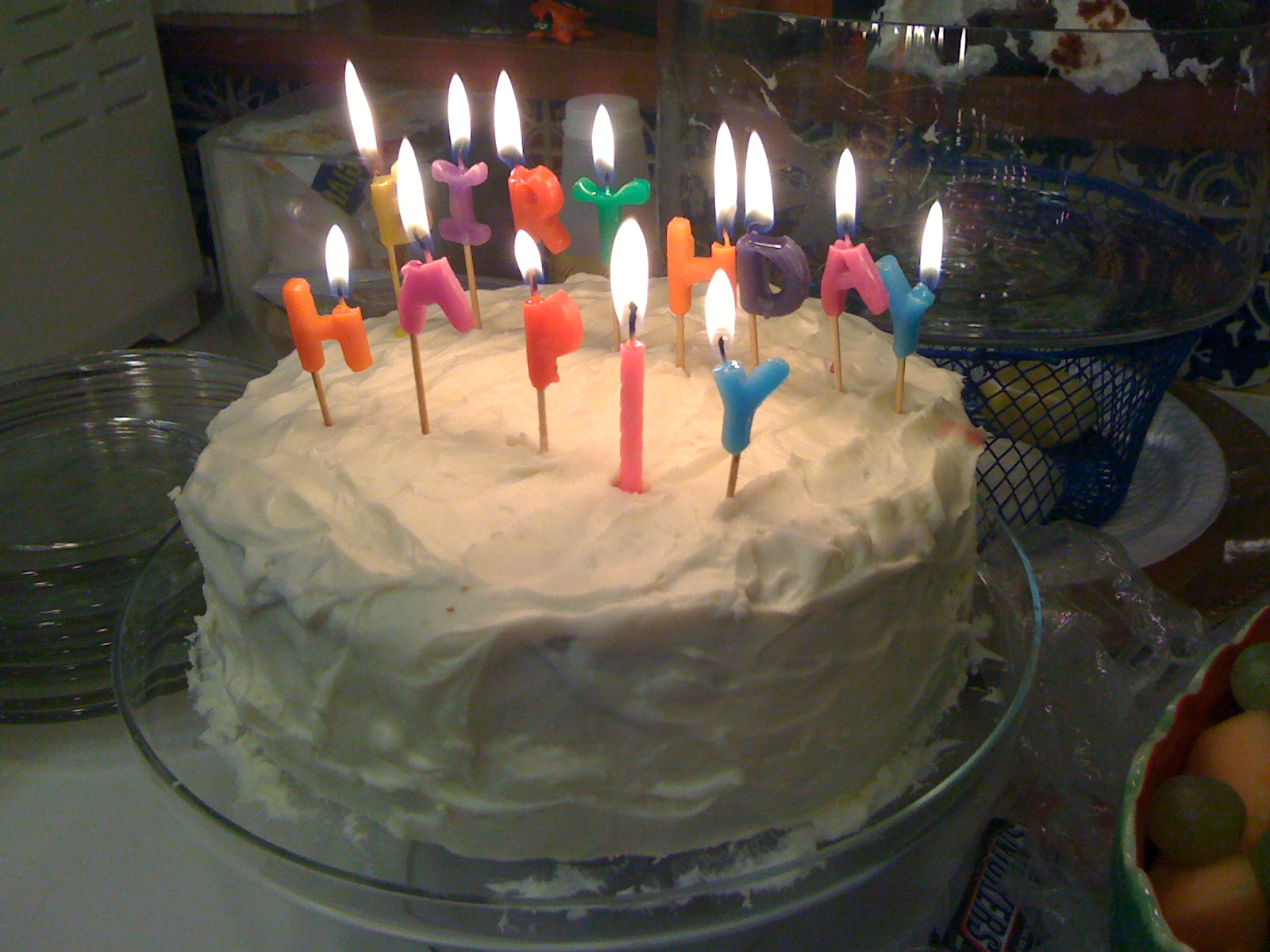 Carrot Birthday Cake for the Running Group's November Birthdays